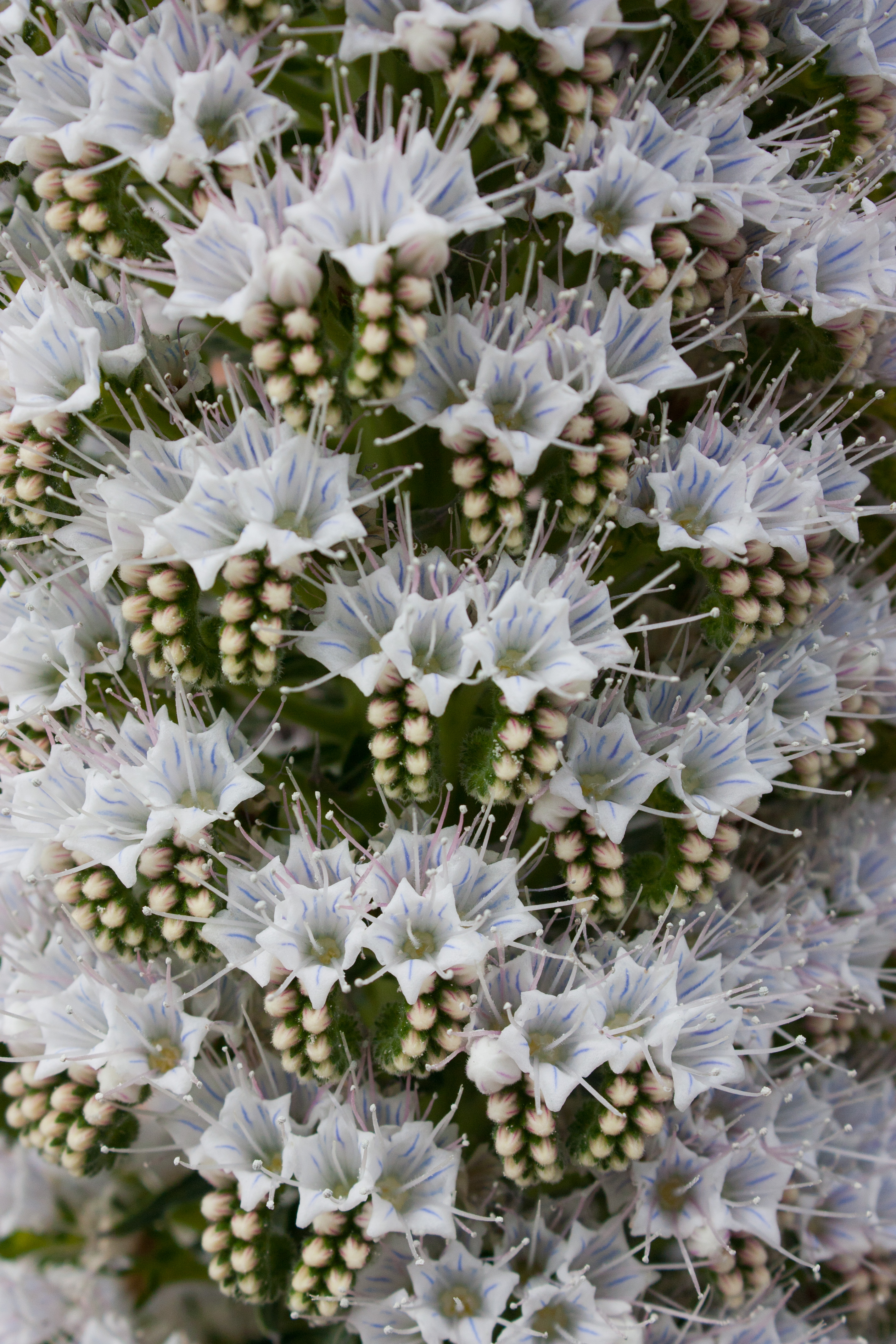 Echium simplex, detail of the inflorescence